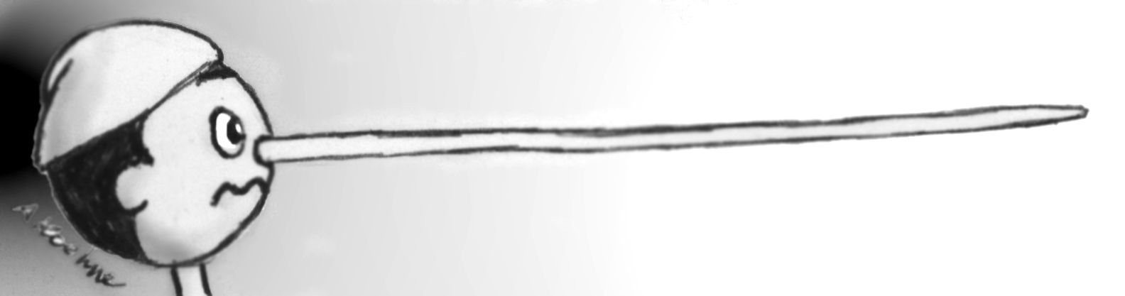 Pinocchio by André Koehne